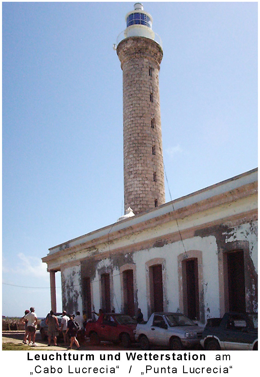 Lighthouse and weather station, Cabo Lucrecia, Holguín Province, Cuba.